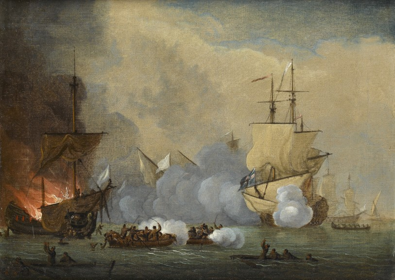 The Battle of Malaga, 13th August, 1704